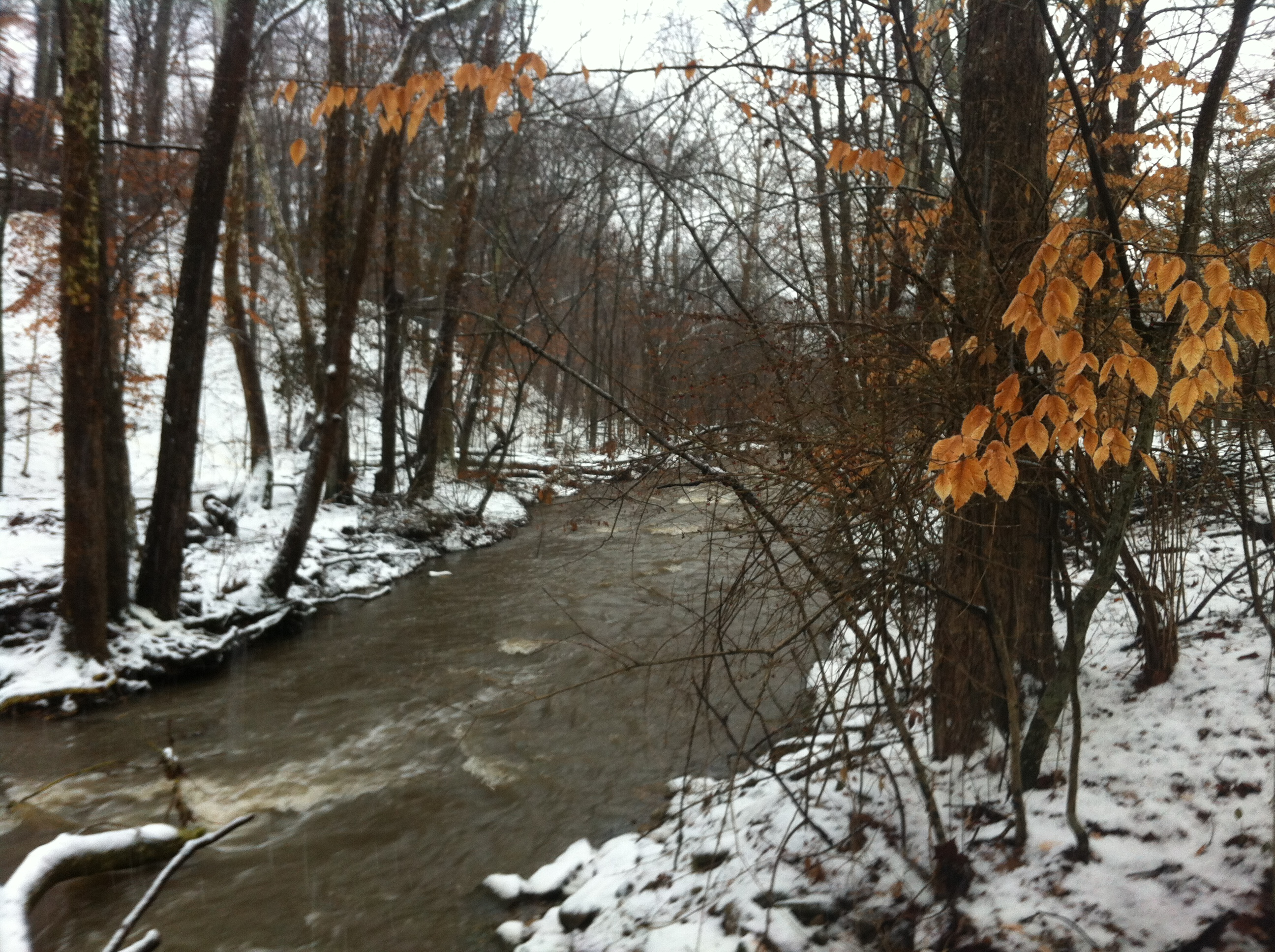 Jackson Creek, south of Rock Creek Drive in Bloomington, Indiana USA